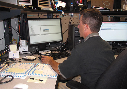 Examiner komputer forensik